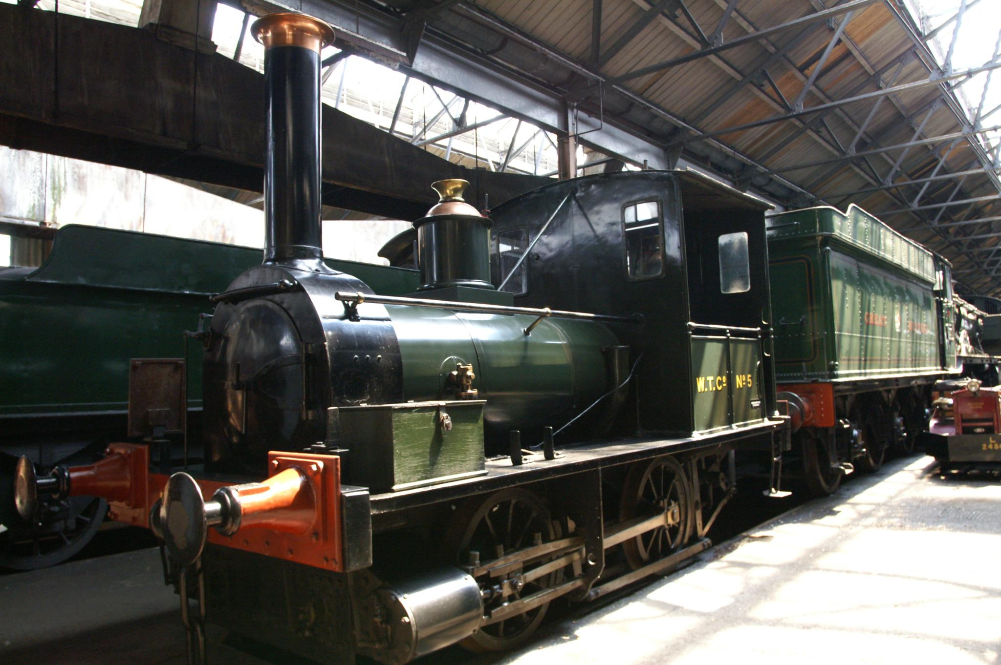 Didcot Railway Centre